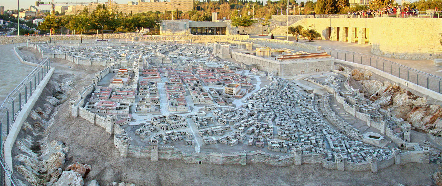 Scale model of Jerusalem in the Second Temple Period, at the Israel Museum.